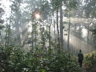 Bardiya National Park, Nepal